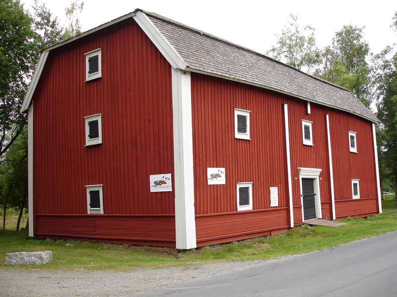 Old storage building belonging to the ironworks in Hörnefors, Västerbotten county, Sweden.